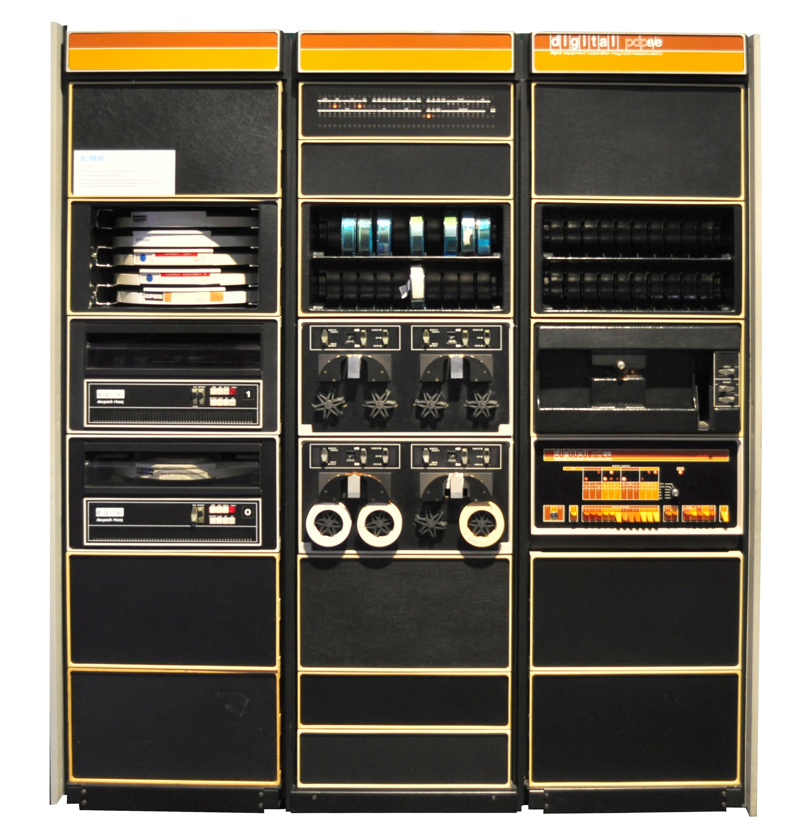 Full view of the PDP-8/E from Digital Equipment Corporation. Currently on display at the Living Computers Museum in Seattle, Washington.